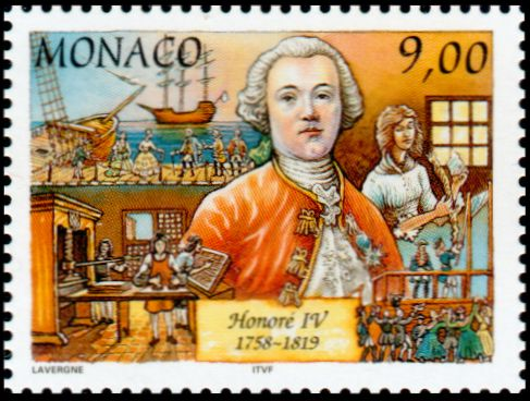 Stamp of Honoré IV of Monaco